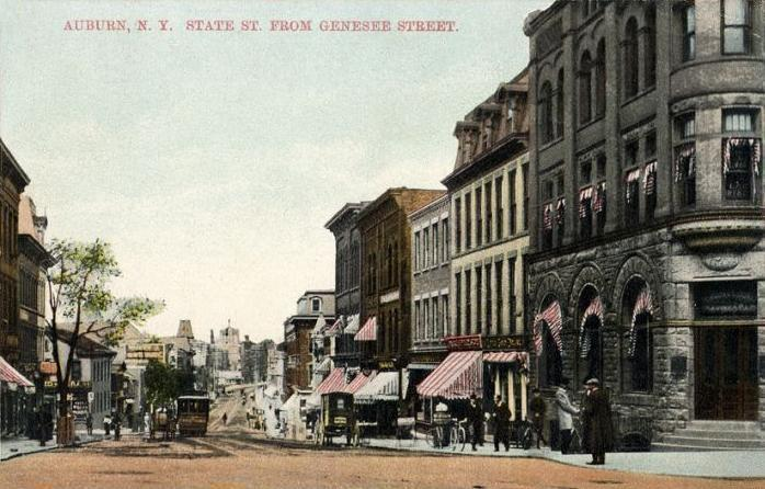 State Street from Genesee Street, Auburn, New York; from a 1910 postcard published by C. S. Woolworth & Company, Auburn, New York.